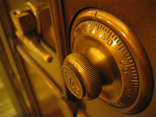 Boston Public Library.